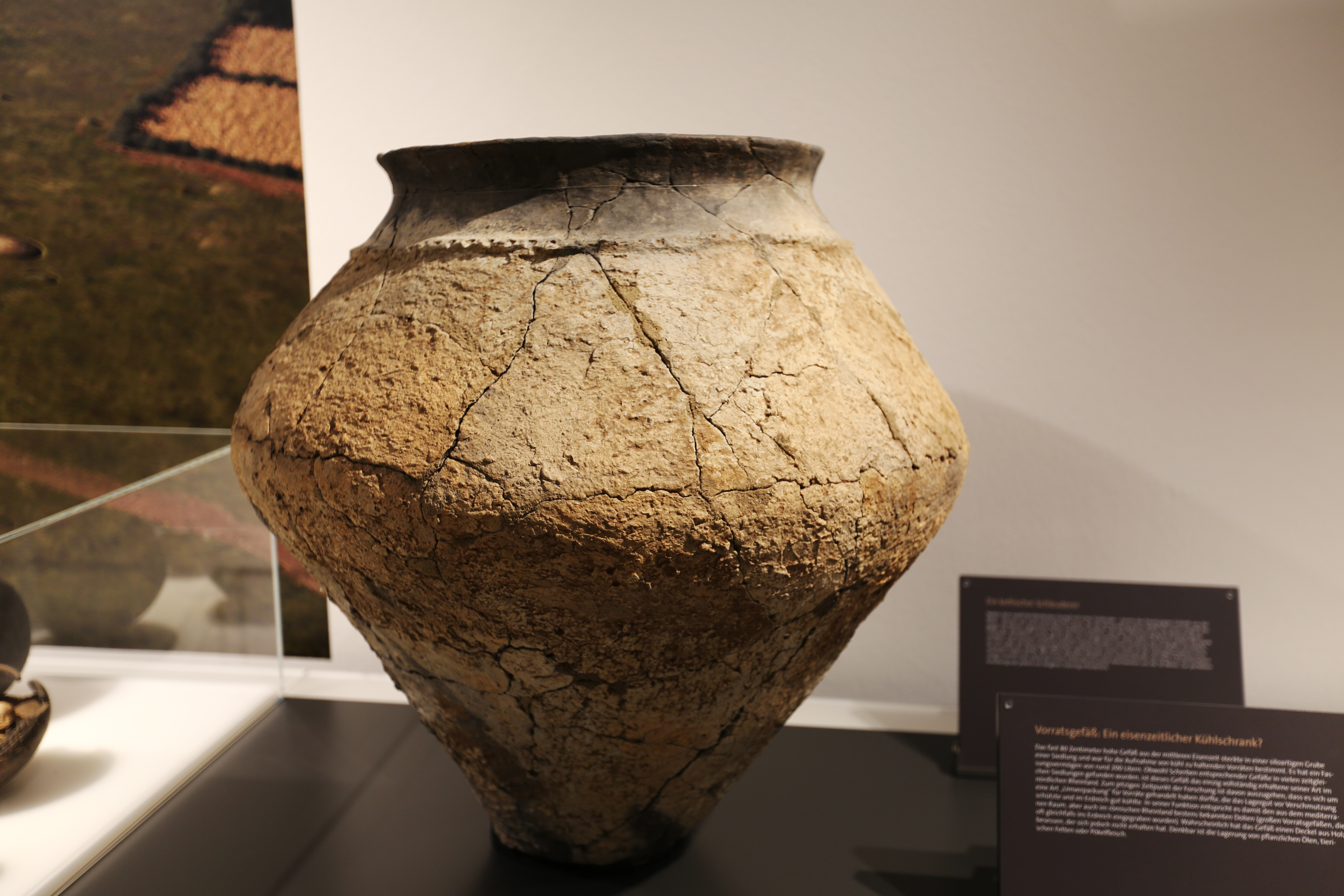 Stock clay 600 - 470 B.C. Weilerswist-Vernich Germany